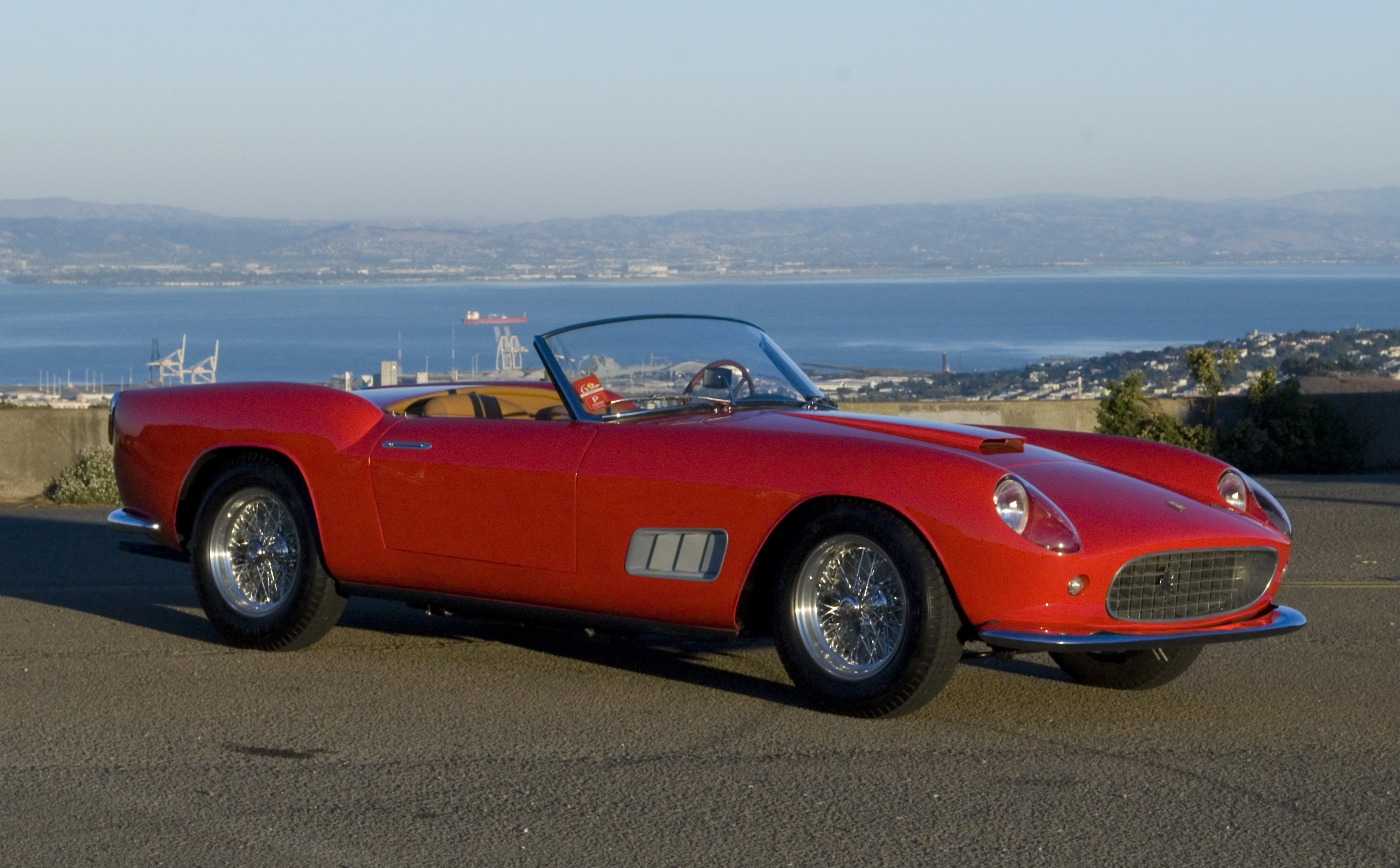 Ferrari 250 GT SWB spider in Twin Peaks San Francisco